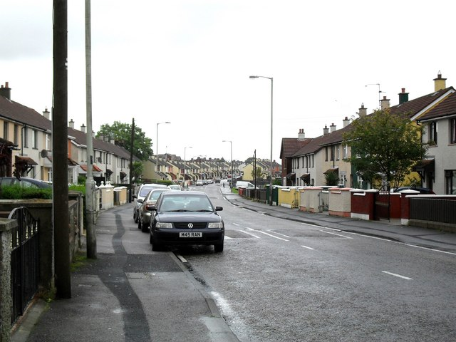 A view of Creggan Heights from Circular Road. A main thoroughfare in the Creggan estate.